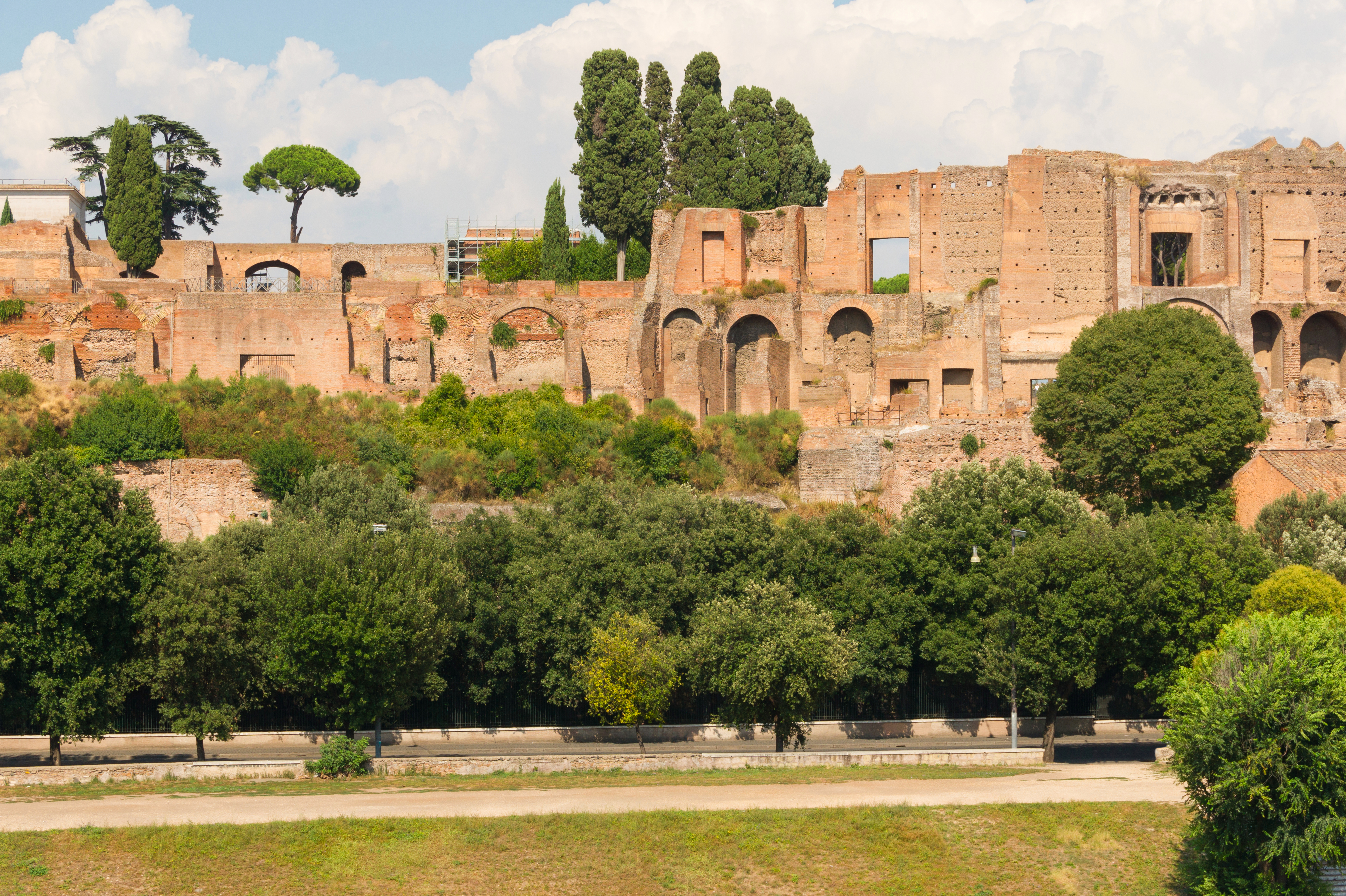 Domus Augustana, as seen from Circus Maximus, Rome, Italy.